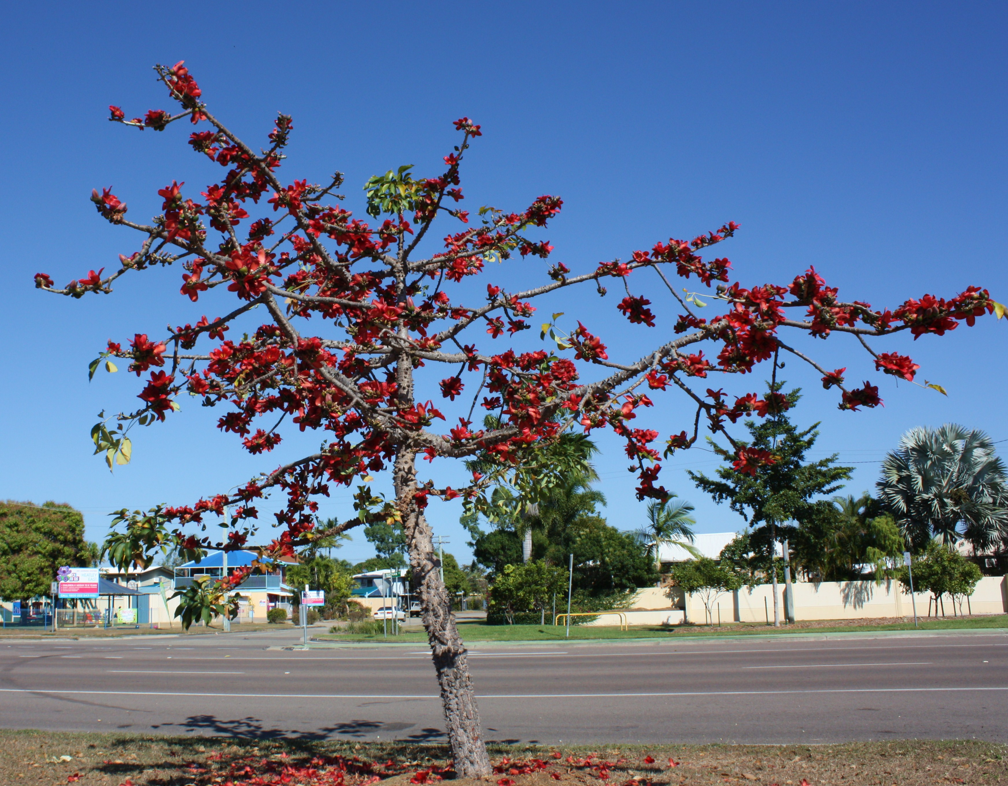 This tree is widely planted in Malay, Indonesia, south China, Hong Kong and Taiwan. The cotton inside the fruits was used a substitute for cotton. The flower was a common ingredient in Chinese herb tea. Red flowers with 5 petals appear in the spring before the new foliage. This one was photographed in Townsville, Qld. An avenue of them in flower looked very striking.